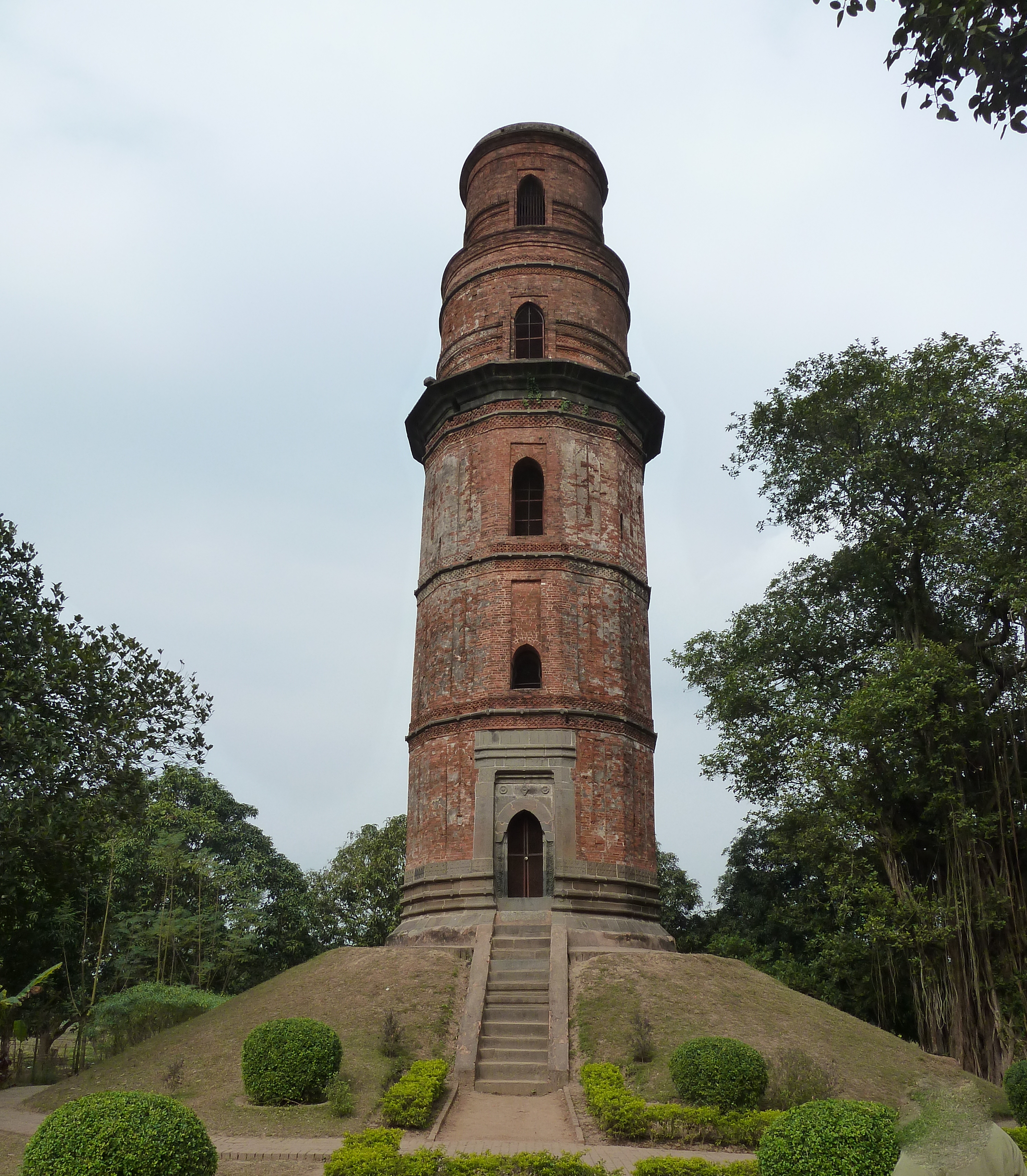 This tower 25.60 m Hight with spiral staircase having 73 steps was probably constructed by Saifuddin Firoz an abyssinian who became the sultan by killing Barbak Shah.